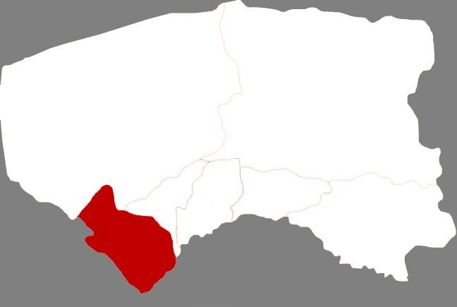 Locator map of Dengkou County in Bayan Nur, Inner Mongolia, China